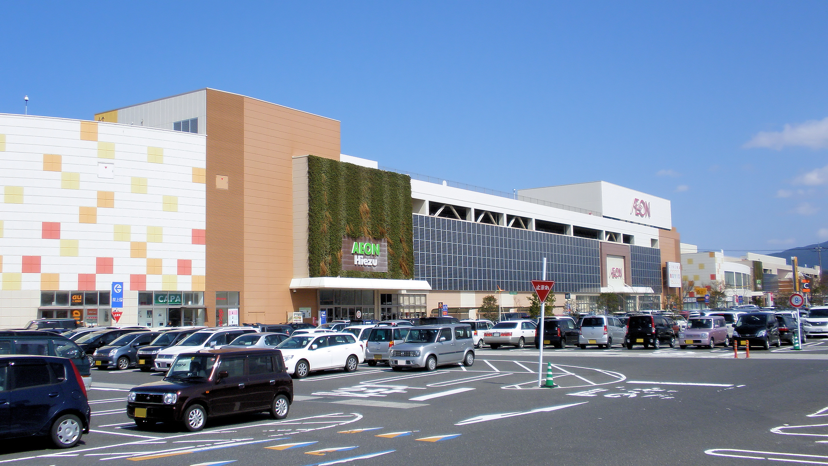 AEON Mall Hiezu, Hiezu, Tottori.